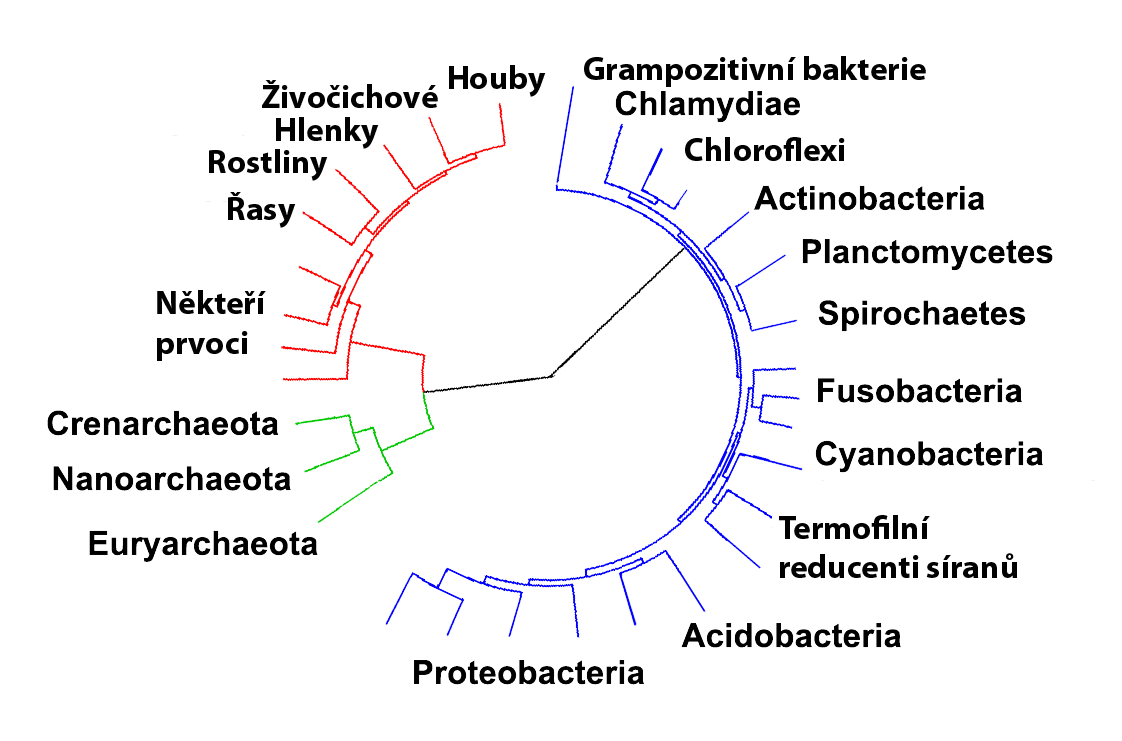 very simplified tree of life, czech version A highly resolved Tree Of Life, based on completely sequenced genomes [1]. The image was generated using iTOL: Interactive Tree Of Life[2], an online phylogenetic tree viewer and Tree Of Life resource. Eukaryotes are colored red, archaea green and bacteria blue. ↑ Ciccarelli, FD (2006). "Toward automatic reconstruction of a highly resolved tree of life." (Pubmed). Science 311(5765): 1283-7. ↑ Letunic, I (2007). "Interactive Tree Of Life (iTOL): an online tool for phylogenetic tree display and annotation.". Bioinformatics 23(1): 127-8.